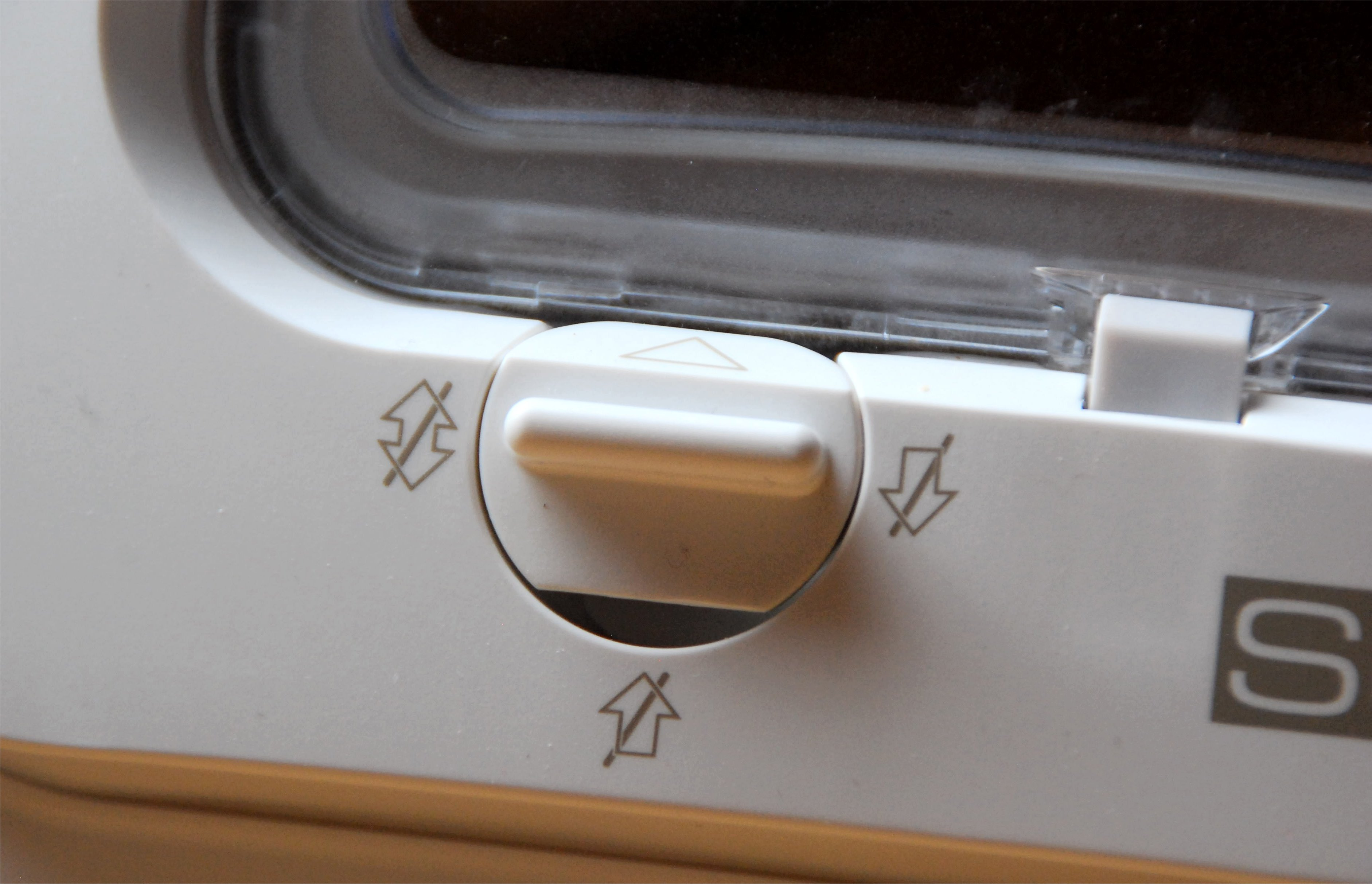 Pet door / Cat door: 4-way switch and RFID controlled locking